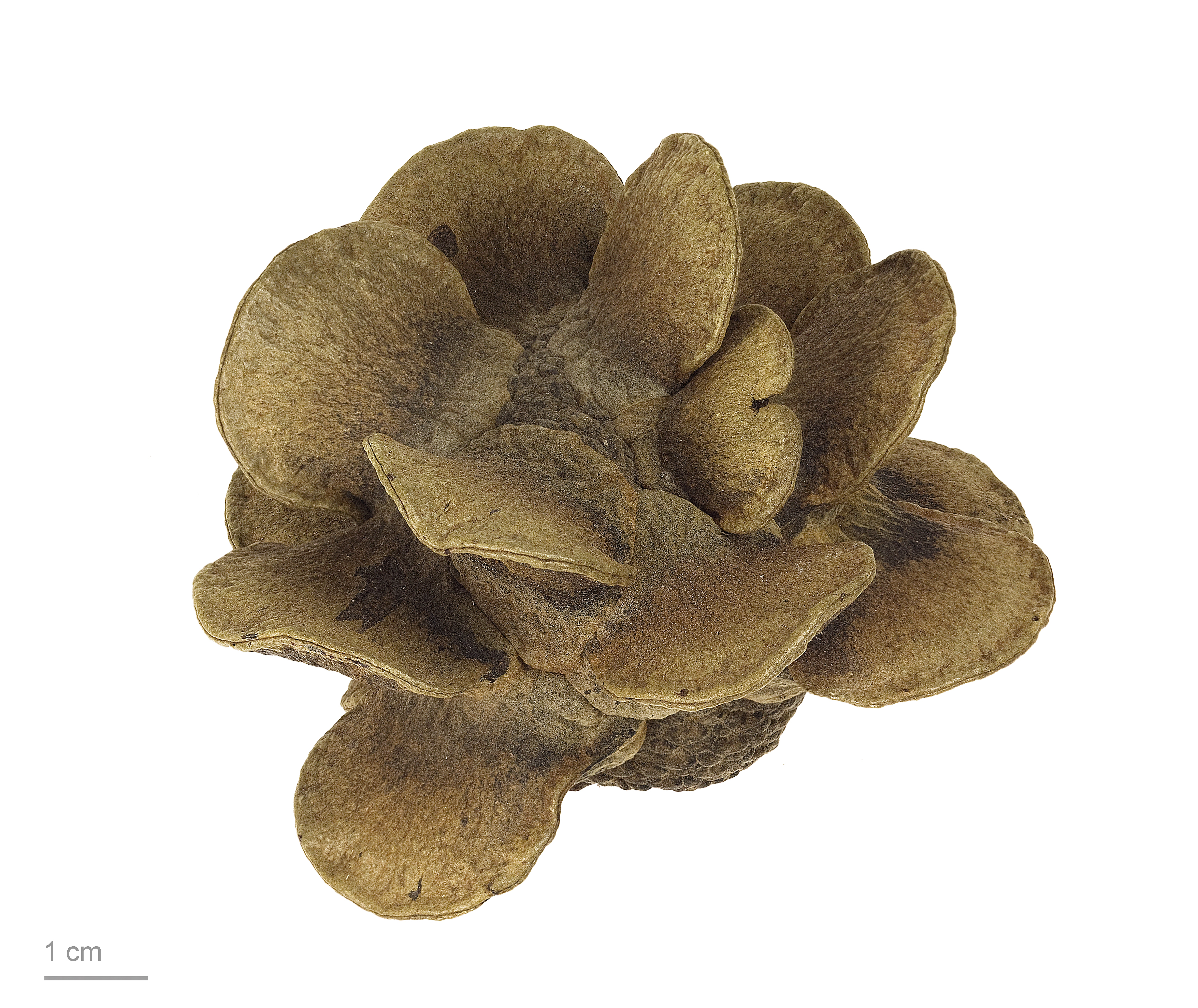 Rose-Fruited Banksia , fruits and seeds